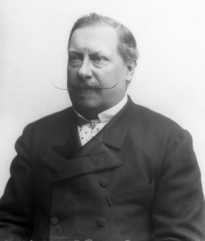 King Louis I of Portugal